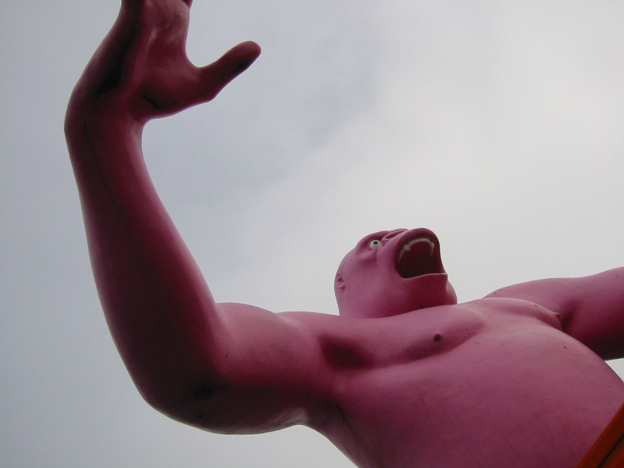 King Kong statue by Nicholas Monro, while at Ingliston Sunday market, Edinburgh